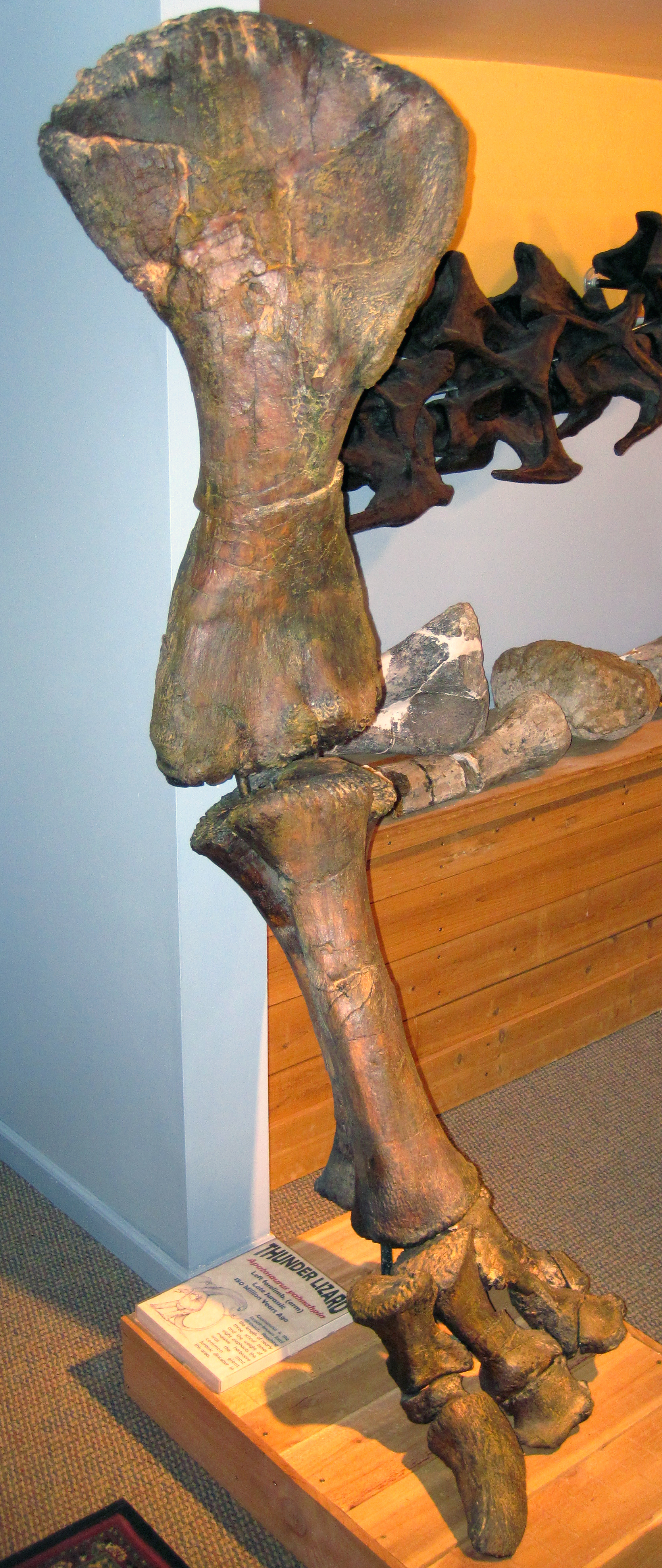 Eobrontosaurus yahnahpin (Filla & Redman, 1994) sauropod dinosaur leg (left forelimb) from the Jurassic of Wyoming, USA (public display, Morrison Natural History Museum, Morrison, Colorado, USA). Classification: Animalia, Chordata, Vertebrata, Dinosauria, Sauropodomorpha, Diplodocidae Stratigraphy: fluvial mudshales/mudrocks/siliciclastic mudstones of the Morrison Formation, Upper Jurassic Locality: Bertha Quarry, northwestern Albany County, southeastern Wyoming, USA Sauropod dinosaurs were the largest terrestrial animals ever. They all have the same basic body plan: large body with four walking legs, very long neck & tail, and a small head relative to body size. Sauropods were herbivores, and are often perceived as holding their heads & necks up high to reach vegetation normally out of reach to other organisms. Modern reconstructions of many sauropod species depict them with heads and necks held close to the horizontal, or at low angles above the horizontal.